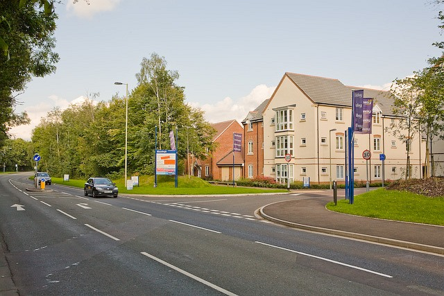 Woodleigh, Boyatt Wood A newly-built residential development on former playing fields, offering affordable housing, 1 bedroom apartments (from £139,000), 2 bedroom apartments (from £167,000) and 3 bedroom houses (from £199,950) according to . This shows the entrance to the development from Woodside Avenue. The cream coloured building is Block D (2 bedroom apartments numbers 74 to 80). (No OS mapping available for this development. Coordinates to be revised when mapping becomes available.)